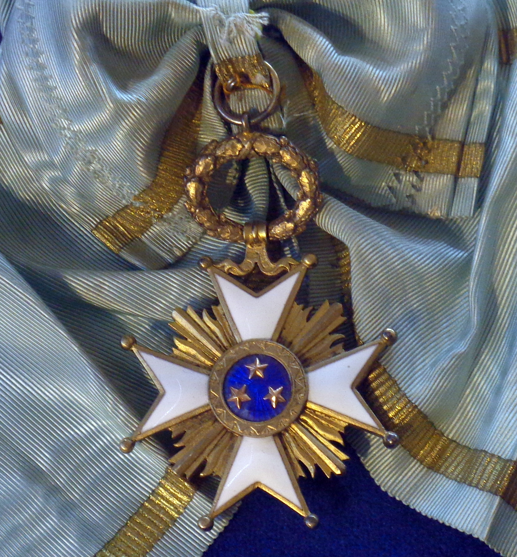 Order of the Three Stars, badge of Grand Cross, before 1940. Latvia. The exhibition of the Tallinn Museum of Orders of Knighthood, Estonia.